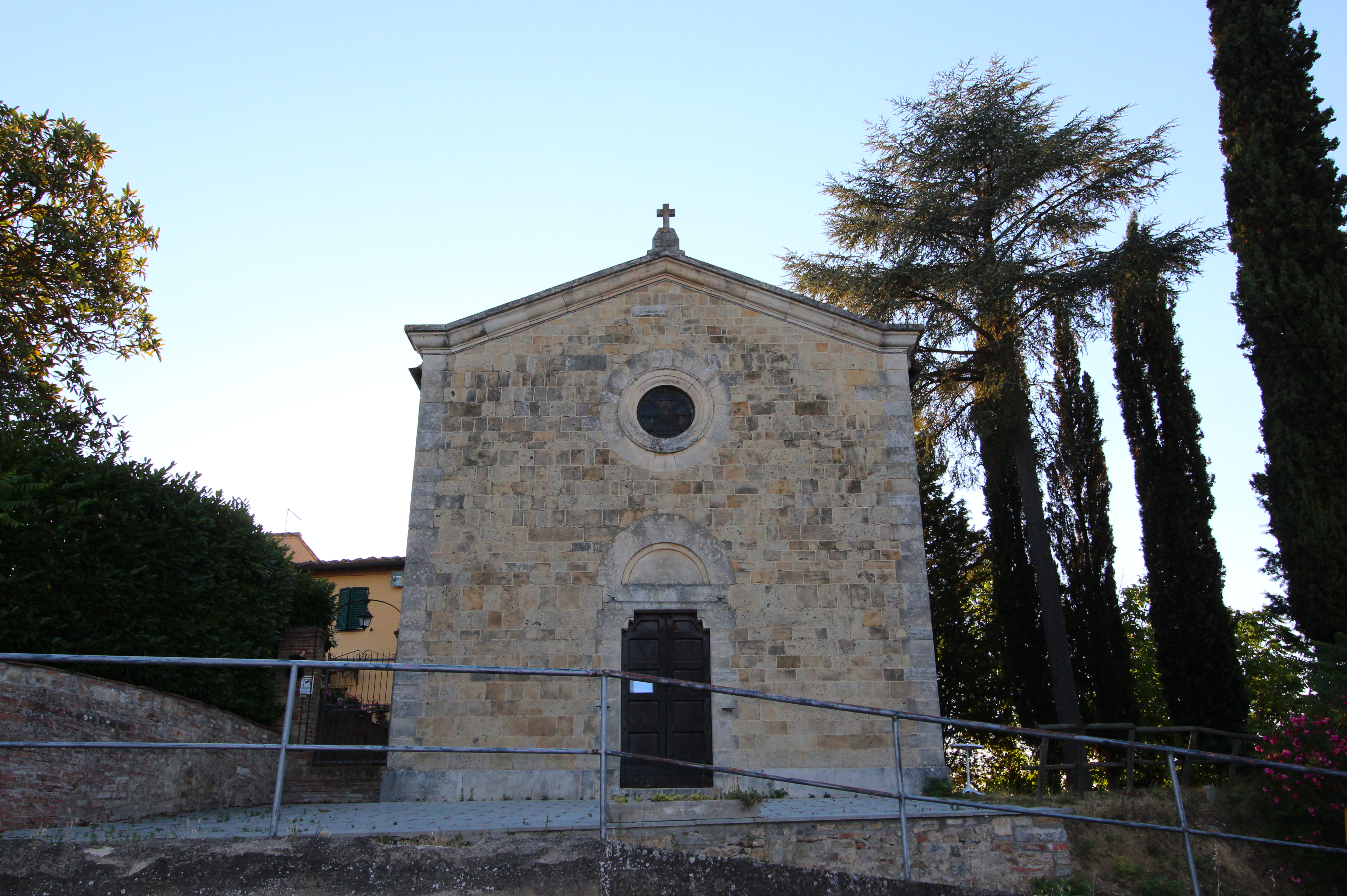 Church San Bartolomeo, Ulignano, hamlet of San Gimignano, Province of Siena, Tuscany, Italy